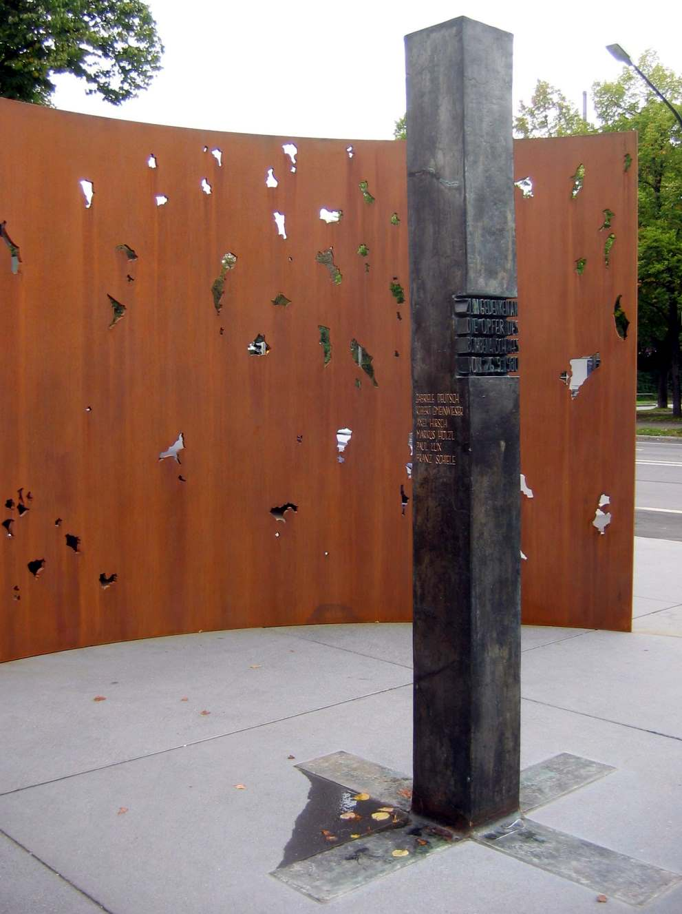 Oktoberfest bomb attack memorial